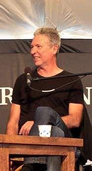 New South Wales longest serving Premier Bob Carr talks 'Sending up and being sent up' with nine time Walkley award winner, cartoonist and painter Bill Leak and comedienne and author Libbi Gorr.